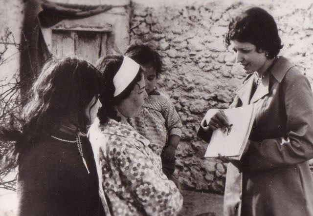 Tawhida Ben Cheikh is a feminist and first Tunisian woman doctor